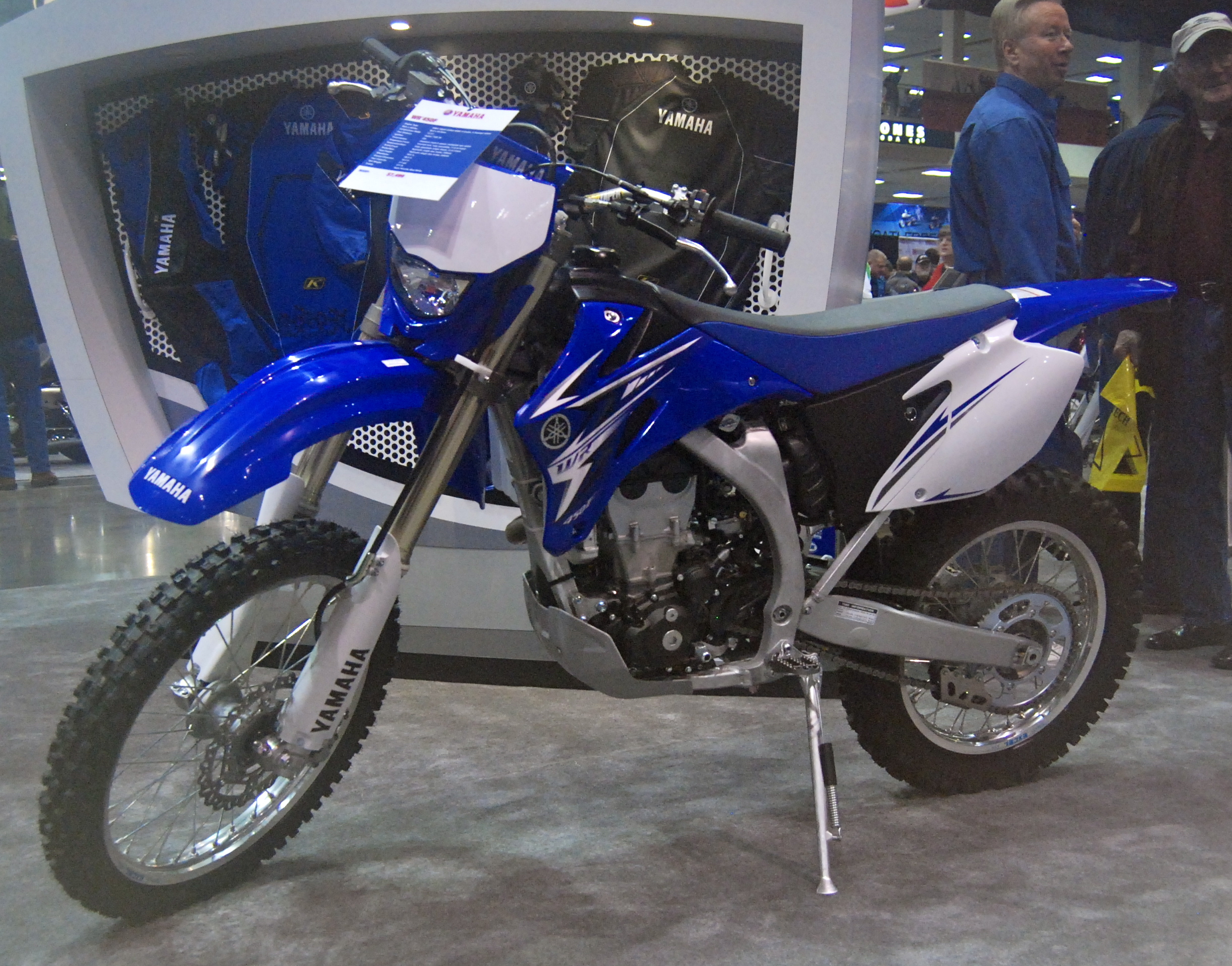 2010 Yamaha WR450F at the 2009 Seattle International Motorcycle Show